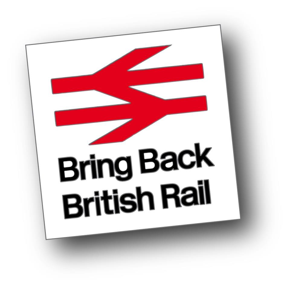 This is the Bring Back British Rail, a reverse image of the old BR logo, (now used by the TOC's) to show we are heading the wrong way with Rail in the UK